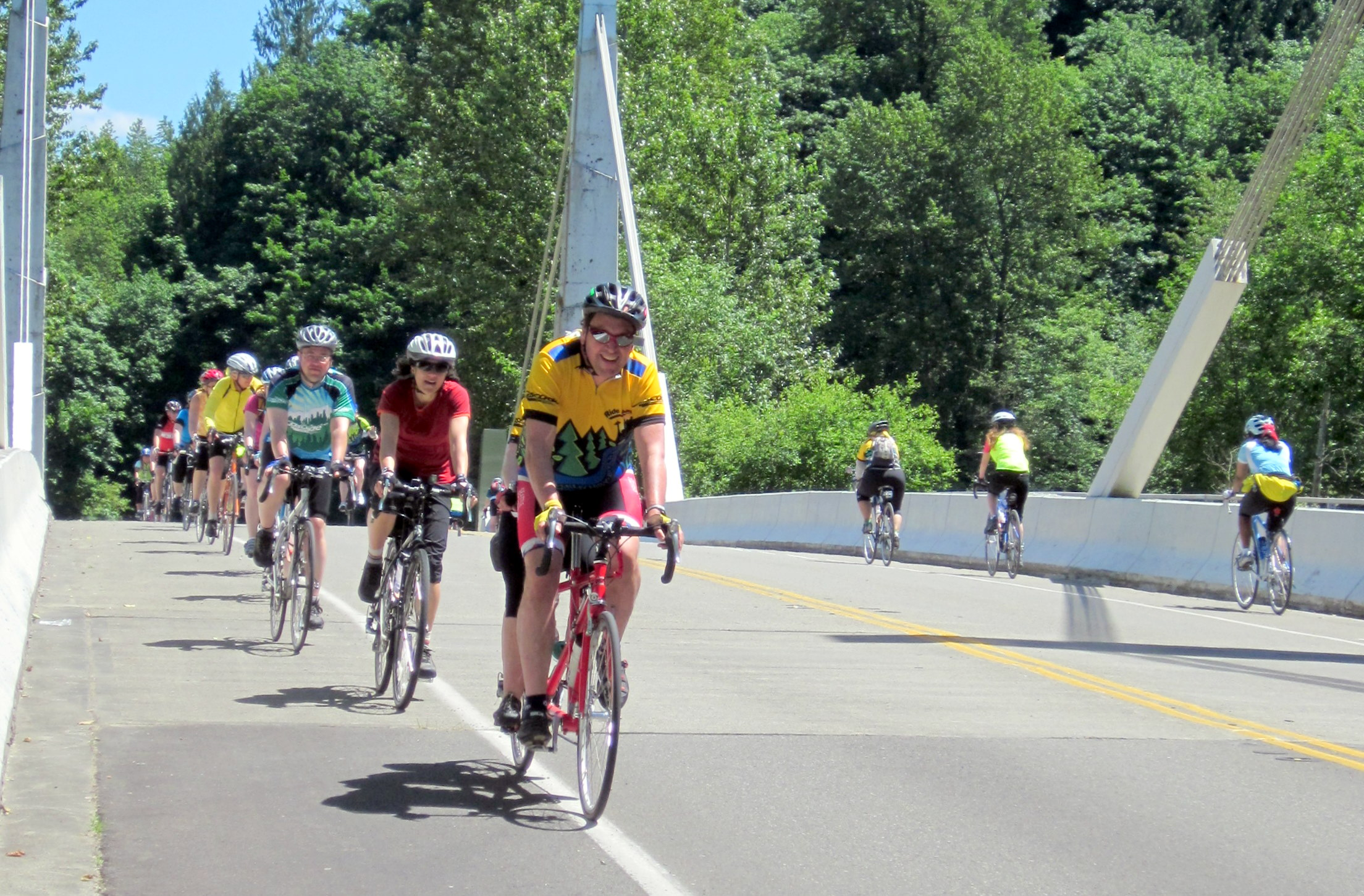 Bicyclists participating in the Cascade Bicycle Club Training Series come and go over the Green River Bridge at Flaming Geyser State Park.